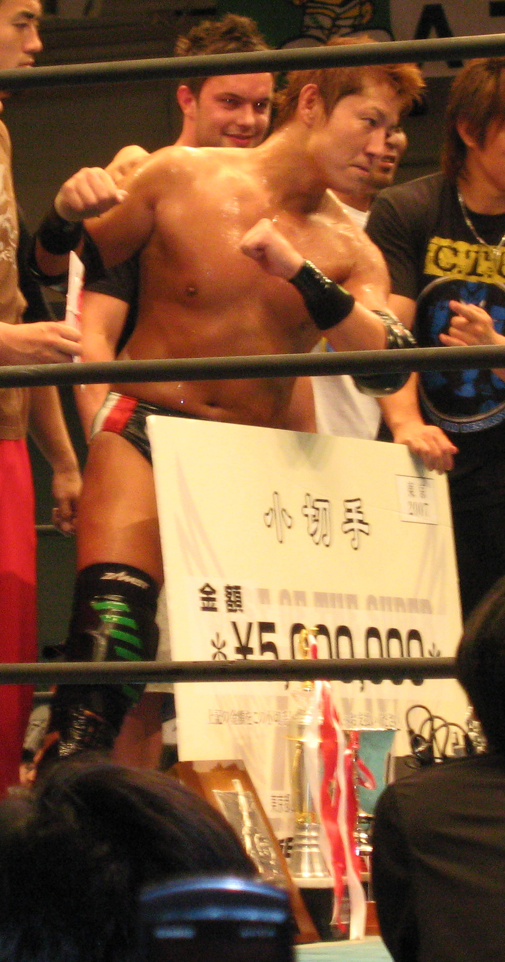 Milano Collection A.T. at the Best of the Super Juniors in 2007. Milano enjoys his 5 million yen cheque courtesy New Japan Pro Wrestling. Korakuen Hall, Tokyo, Japan. 6.17.07.